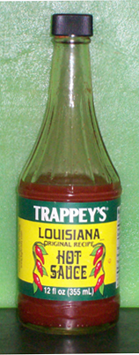 Photo of standard Trappey's Louisiana Hot Sauce. The article didn't have a photo, so I took one.